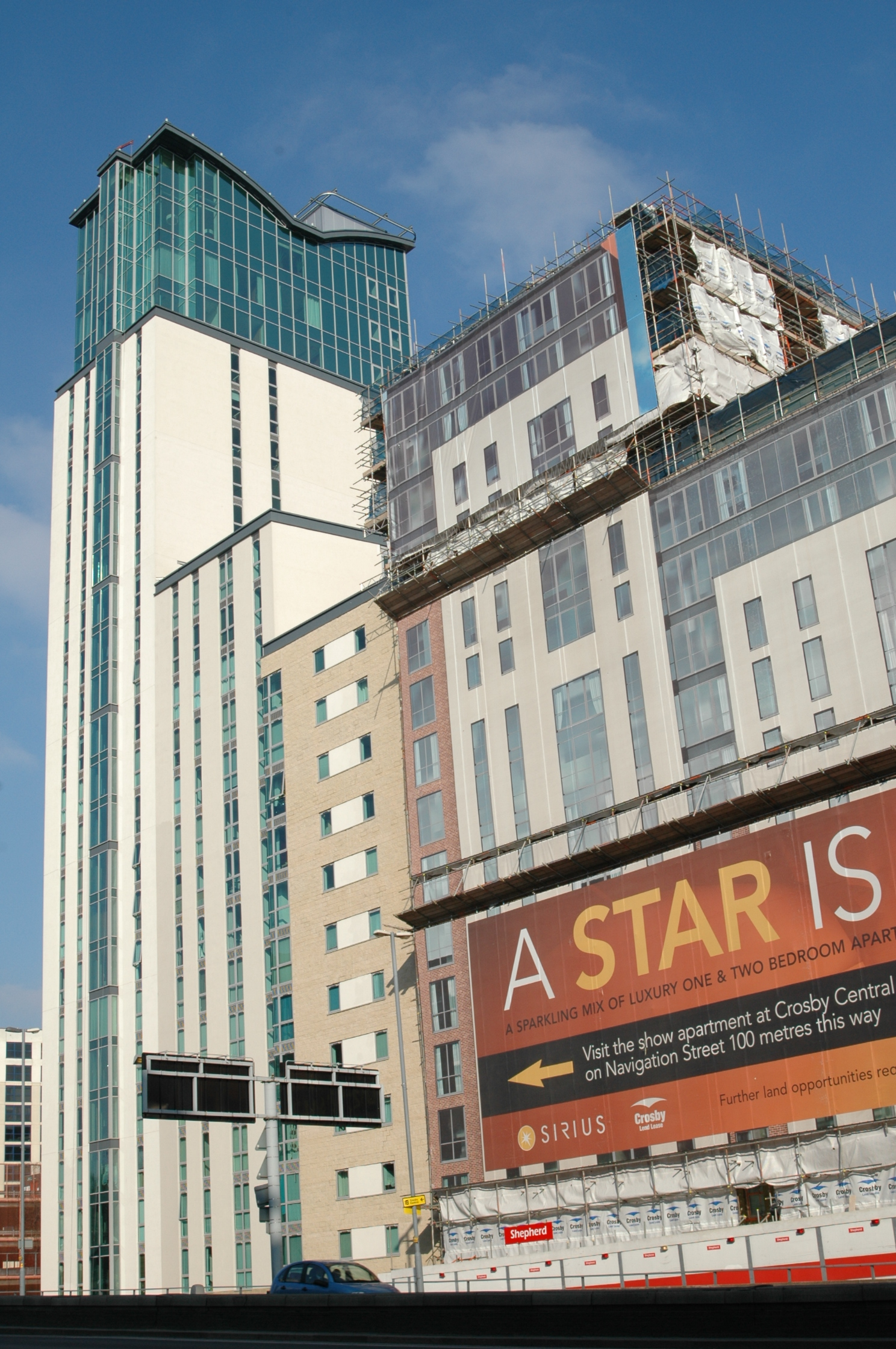 The 90 metre tall Orion Building in Birmingham, England. Taken from the other side of Suffolk Street Queensway. The building under construction to the right is the fourth phase named Sirius